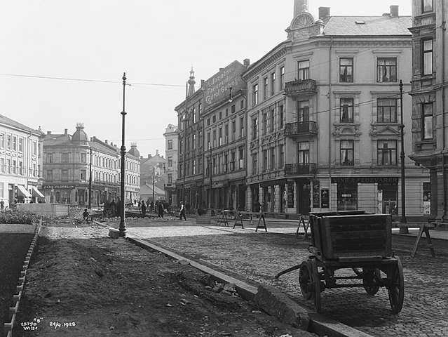 Construction of the metro station at Valkyrie plass in Oslo, Norway.